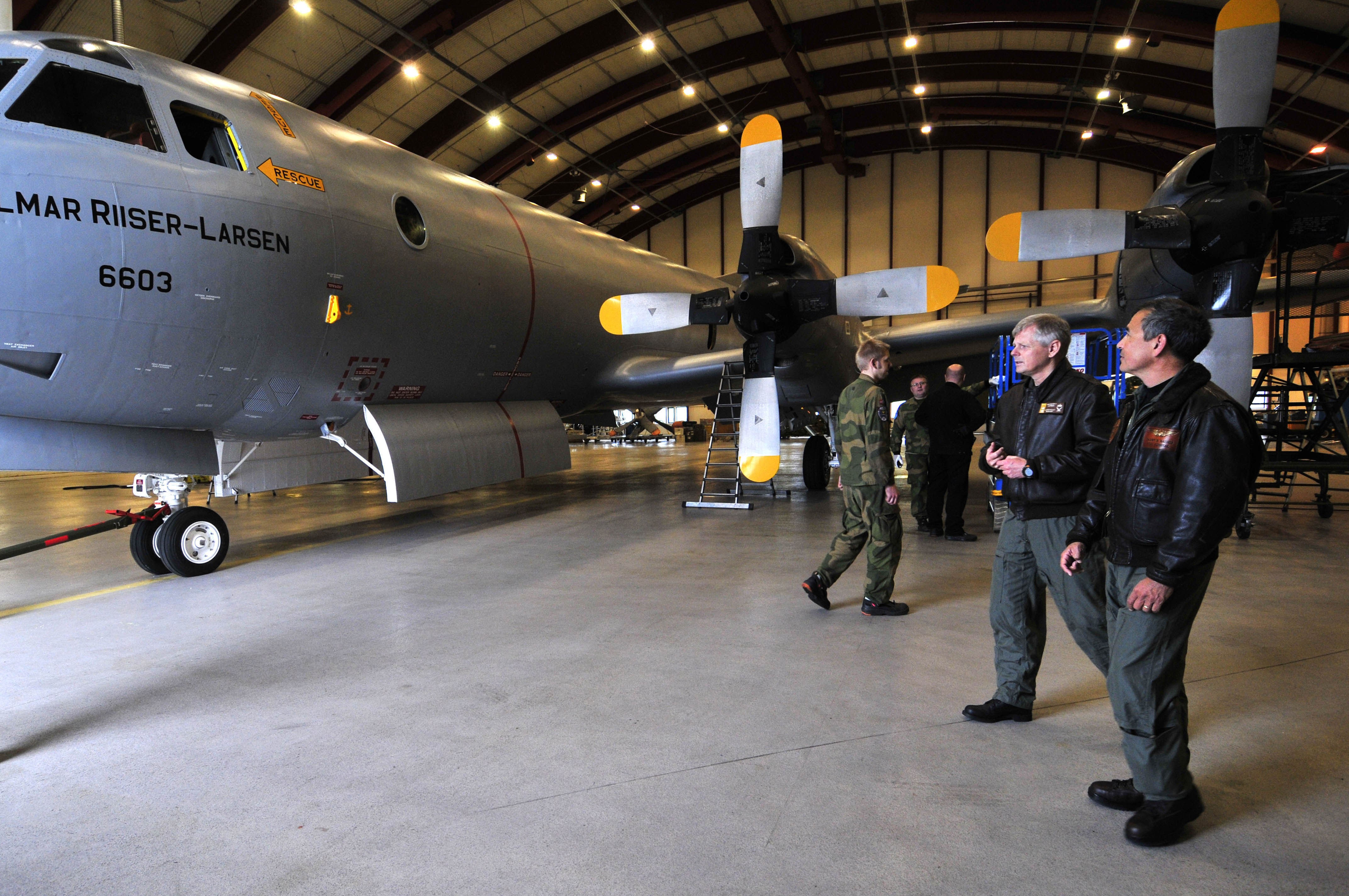 ANDOYA, Norway (Aug. 31, 2011) Vice Adm. Harry B. Harris Jr., commander of U.S. 6th Fleet, inspects a Royal Norwegian Air Force P-3N Orion at Andoya Air Station. Harris visited the station during a four-day visit to Norway as part of U.S. 6th Fleet efforts to strengthen maritime partnerships with Norwegian counterparts.